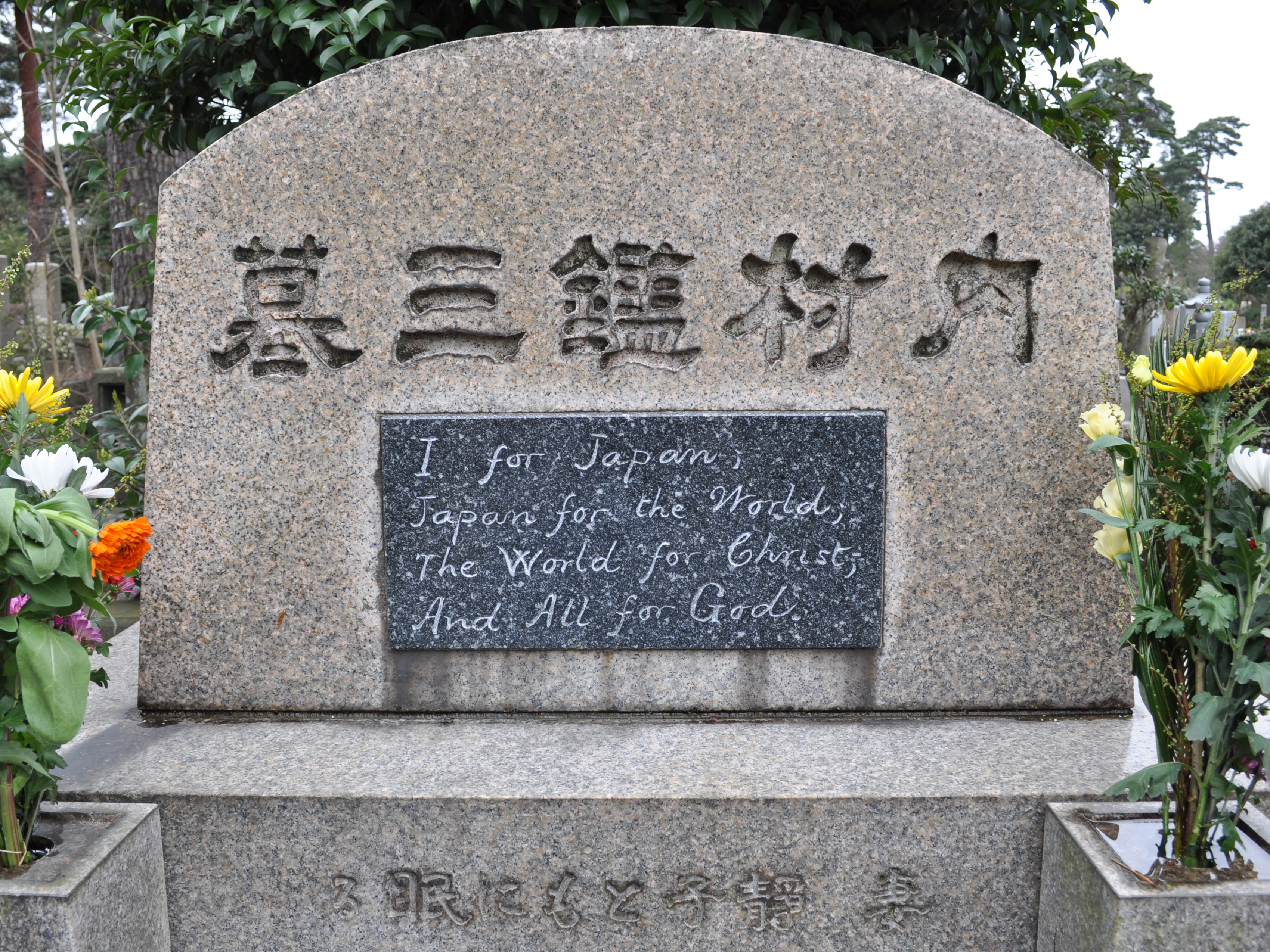 Tombstone of Uchimura Kanzō in Tokyo Tama Cemetery in Fuchu, Tokyo, Japan. It is inscribed "I for Japan, Japan for the World, The World for Christ, And All for God." and "Sleep with my wife, Shizuko."